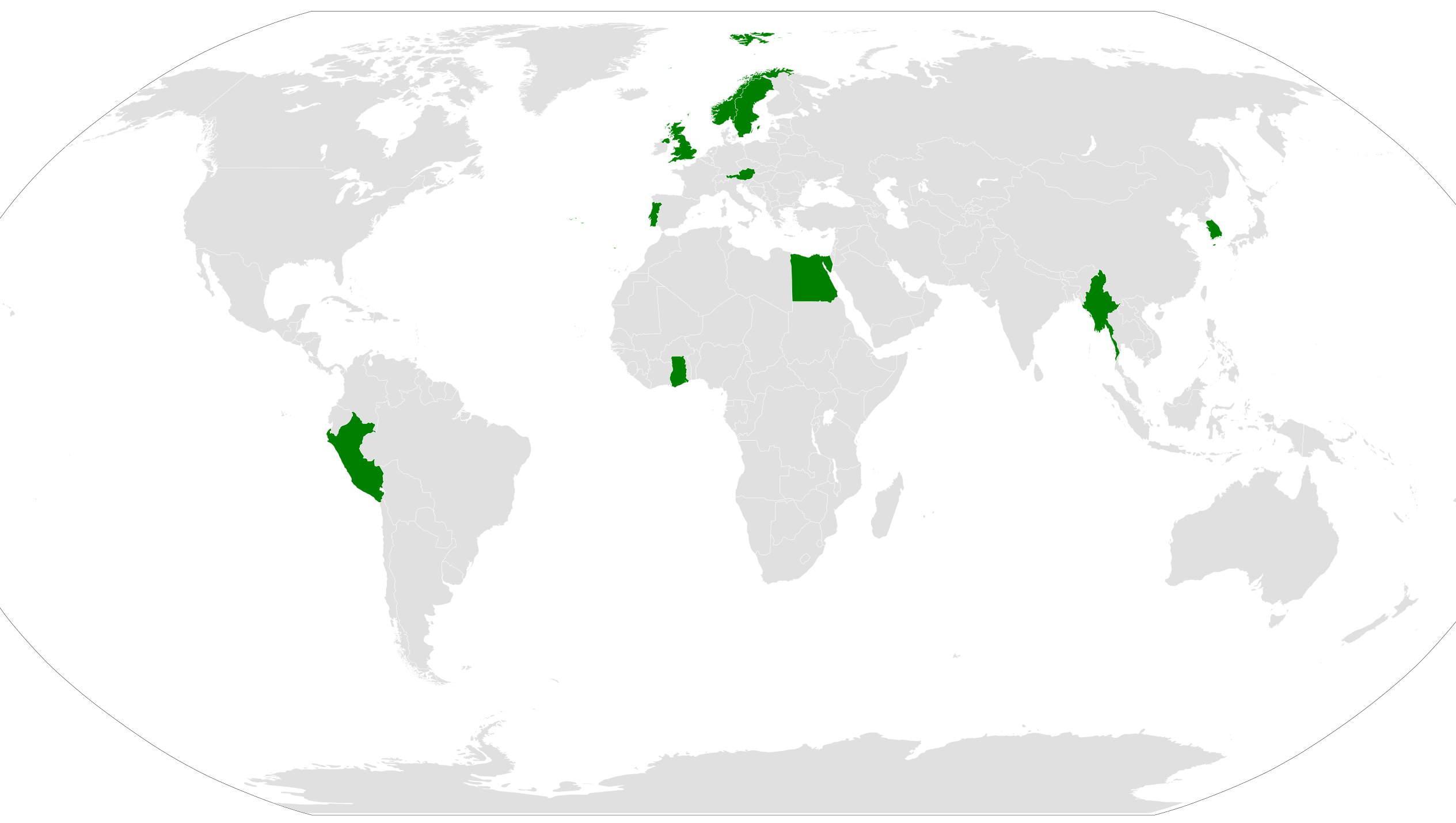 A map shoving which countries have had a national serve as Secretary-General of the United Nations.